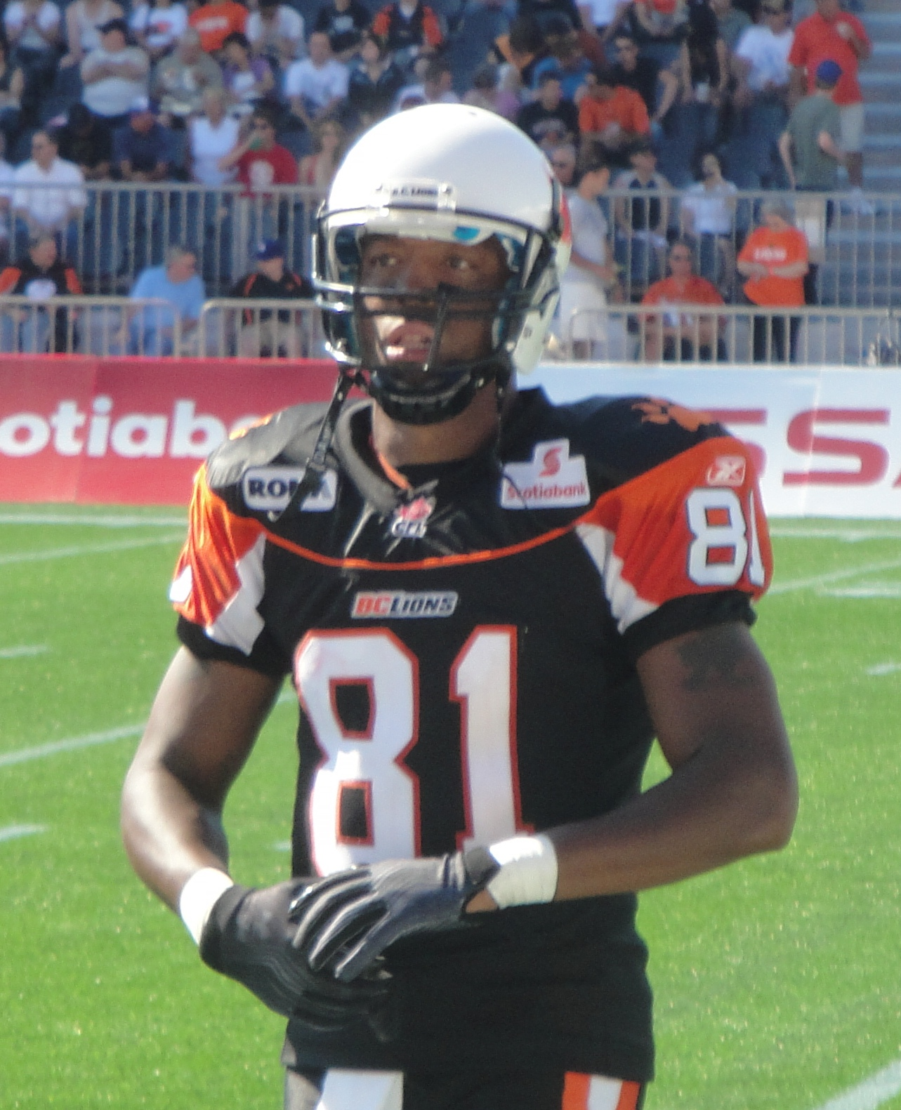 Geroy Simon during the last game at Empire Field.